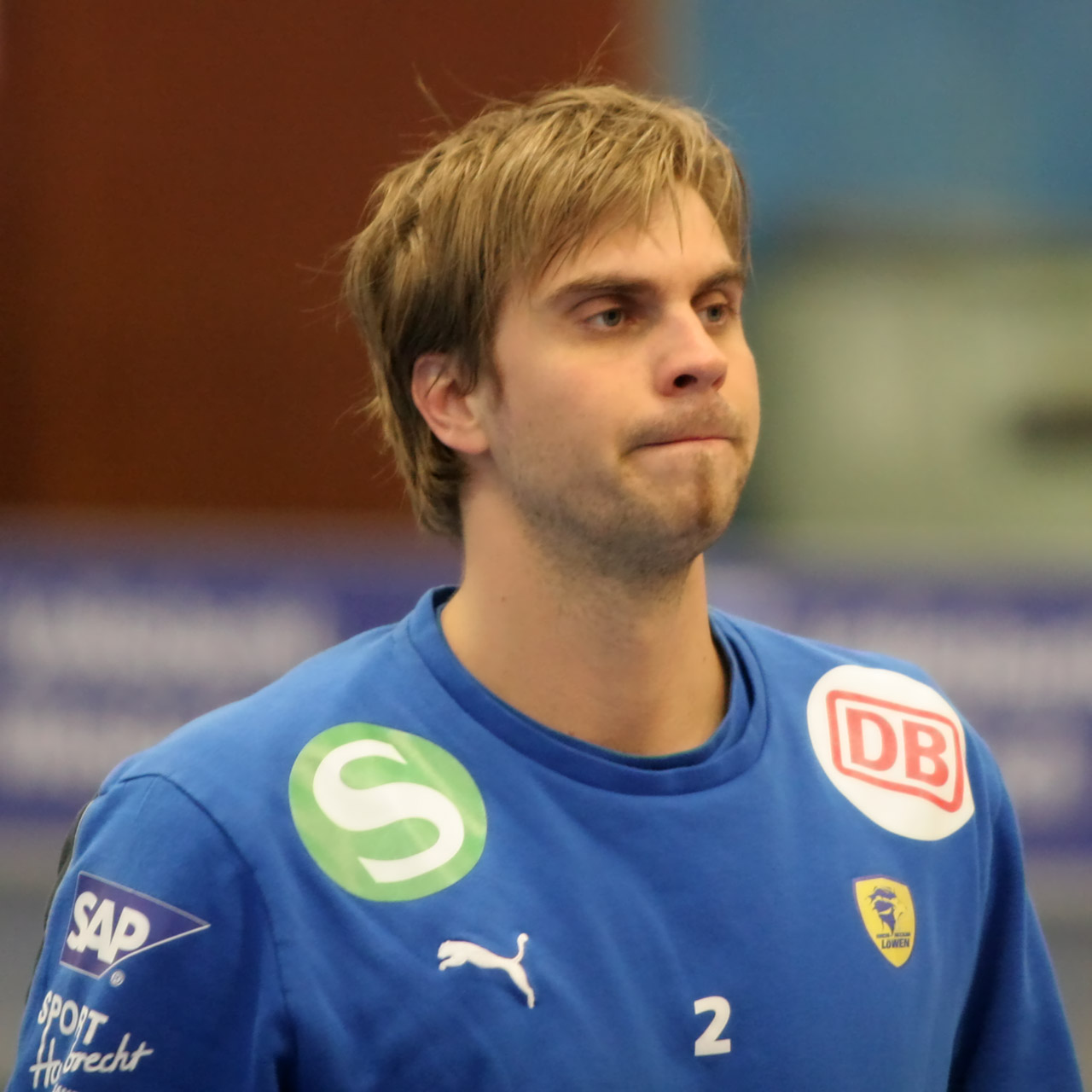 Daniel Buday of Rhein-Necker Löwen (Germany) prior the EHF Cup Winner's Cup semi-final match vers. Balonmano Valladolid (BM Valladolid) on April 5th, 2008 in Heidelberg-Eppelheim (Rhein-Neckar Halle).